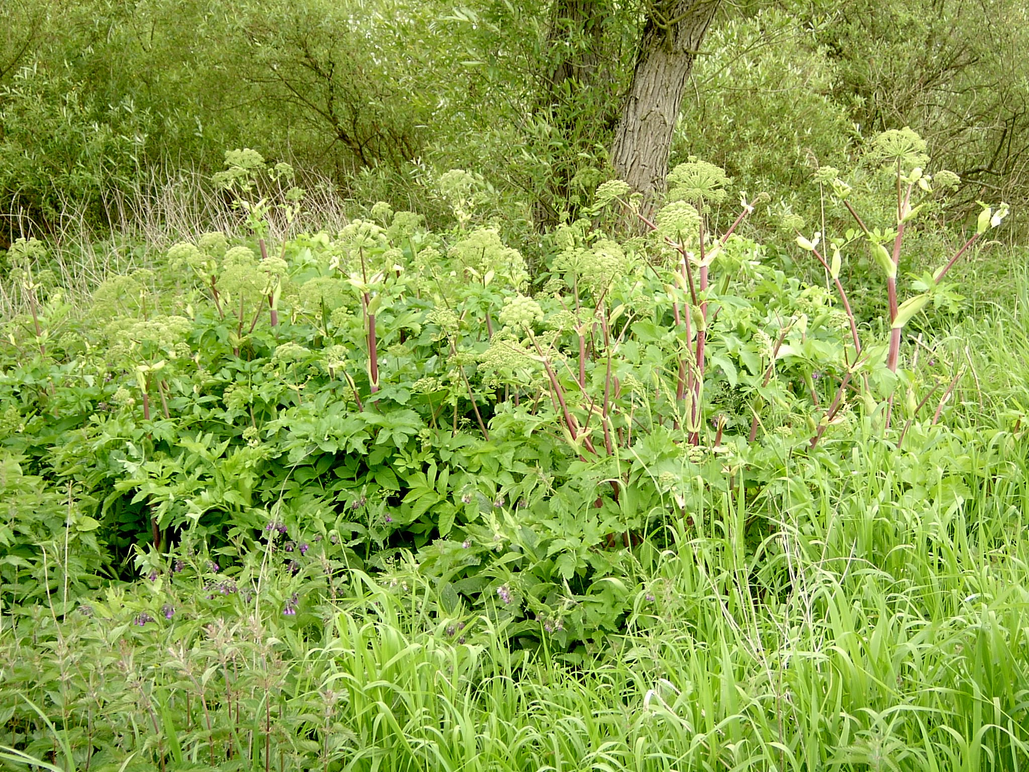 Angelica archangelica subsp. litoralis. Ina river valley, NW Poland